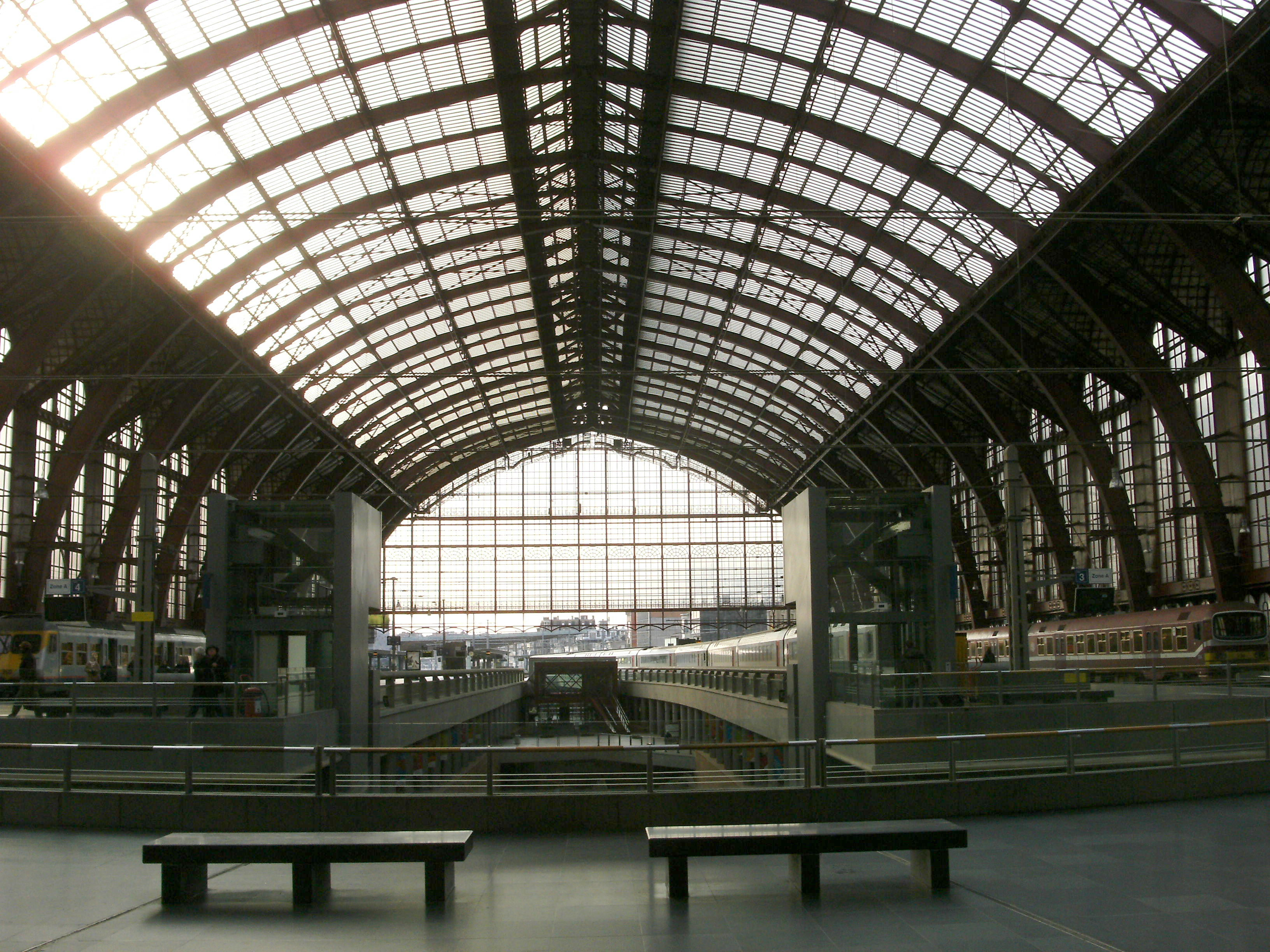 Hall central station Antwerp.